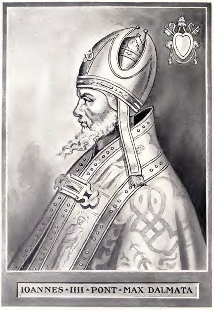 This illustration is from The Lives and Times of the Popes by Chevalier Artaud de Montor, New York: The Catholic Publication Society of America, 1911. It was originally published in 1842.